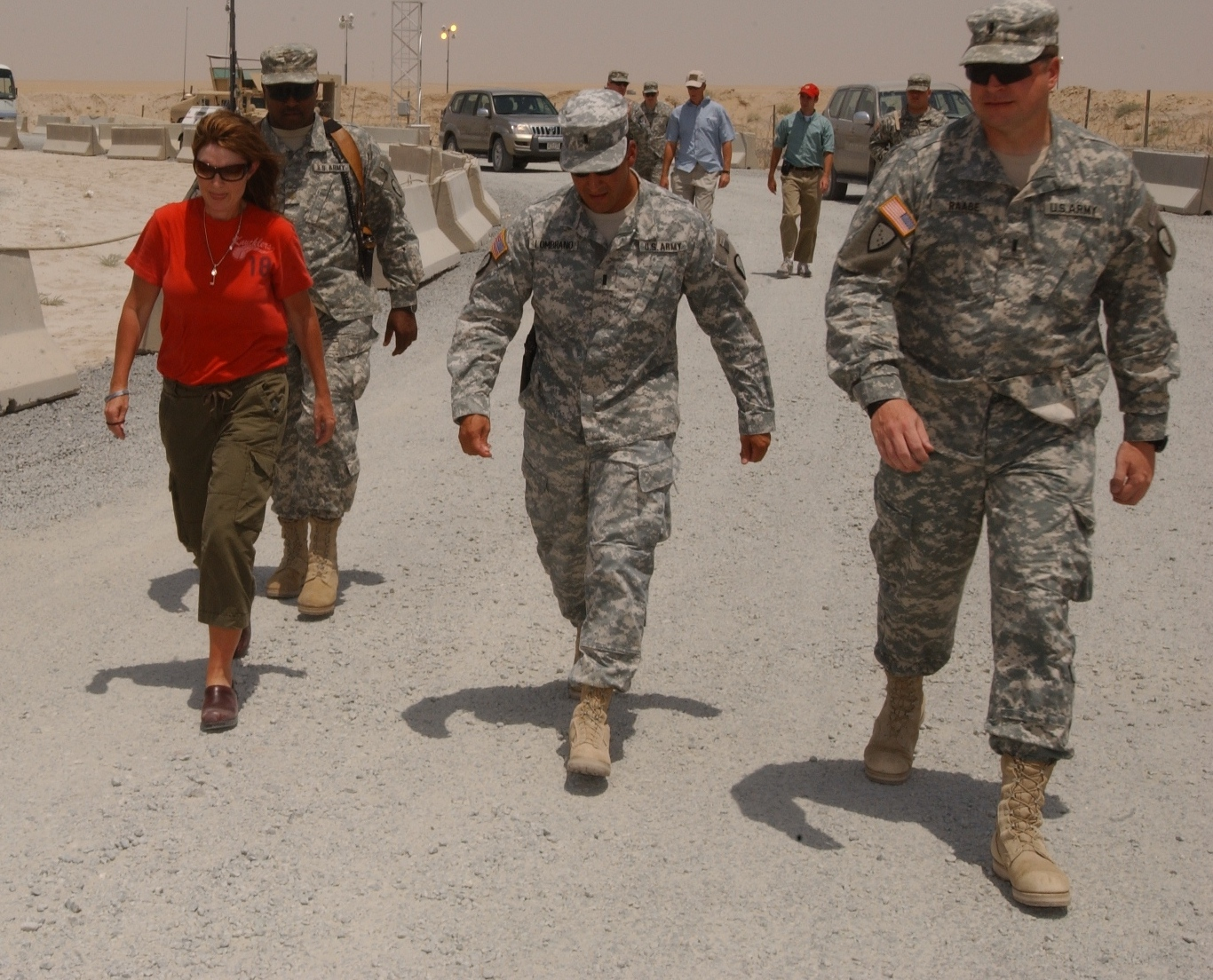 Gov. Sarah Palin, of Alaska, walks with 1st Lts. John A. Lombrano, a former resident of Anchorage, and Christopher Raabe, also from Anchorage, during her visit to Camp Virginia, Kuwait, July 25. The governor concluded her two-day visit to Kuwait by visiting and eating with Soldiers from the Alaska National Guard.